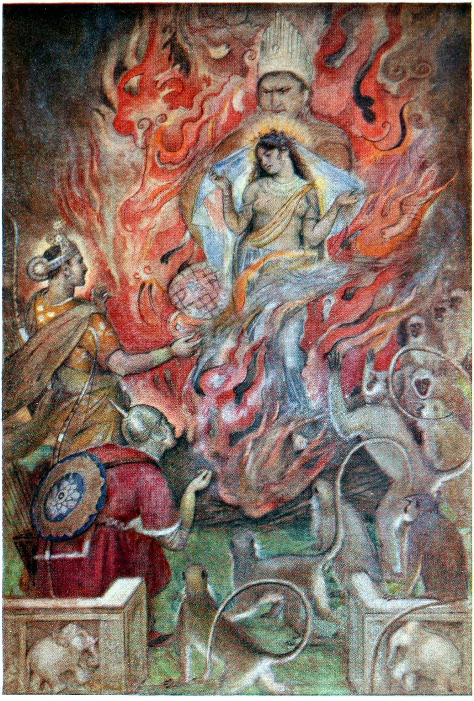 Illustration on page 104 of W.D. Monro's Stories of India's gods & heroes.